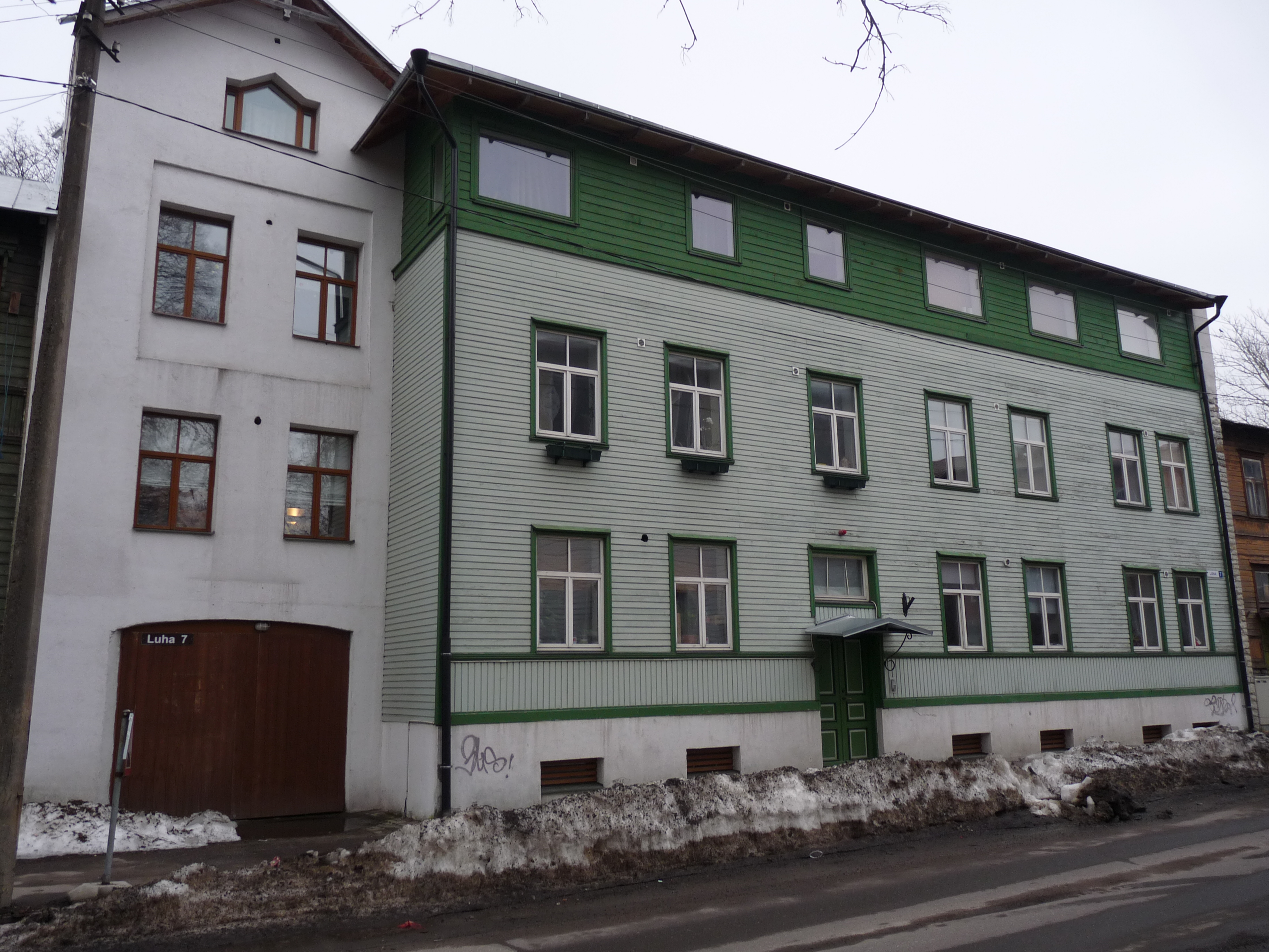 Wooden apartments in Tallinn